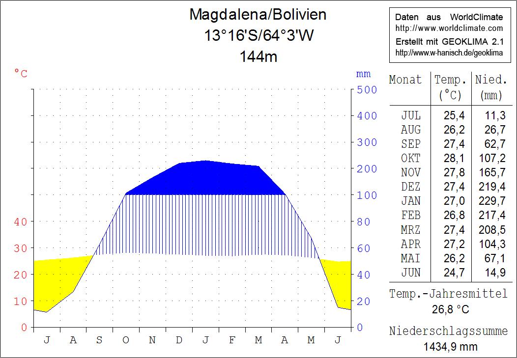 Climate chart in the Walter and Lieth format, metric, °Celsius und millimeters, made with Geoklima 2.1